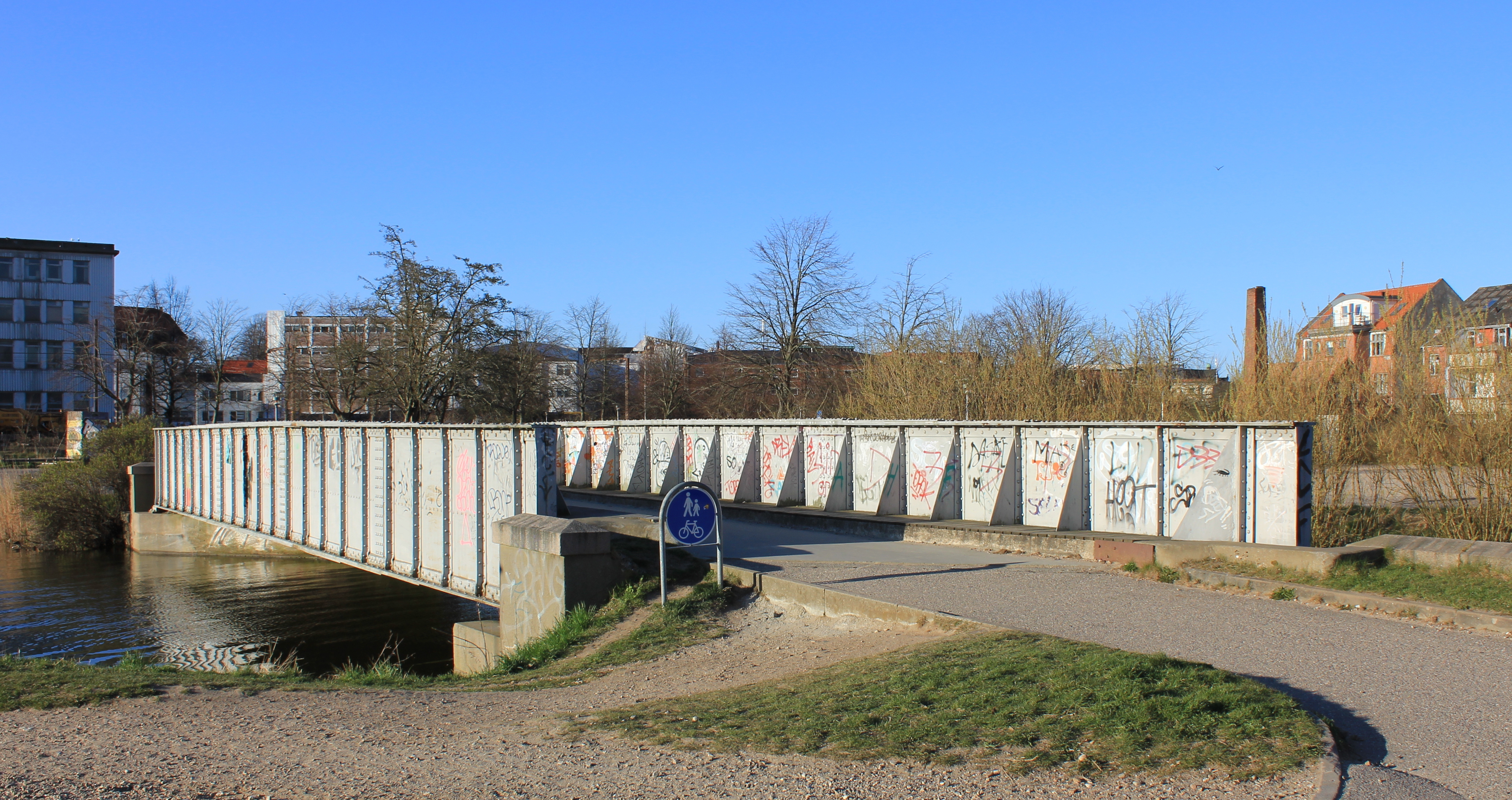 Ironbridge in Kolding, Denmark.